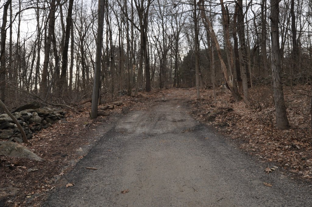 The old portion of Reservoir Road in Newtown, CT; part of the historic Rochambeau Route.